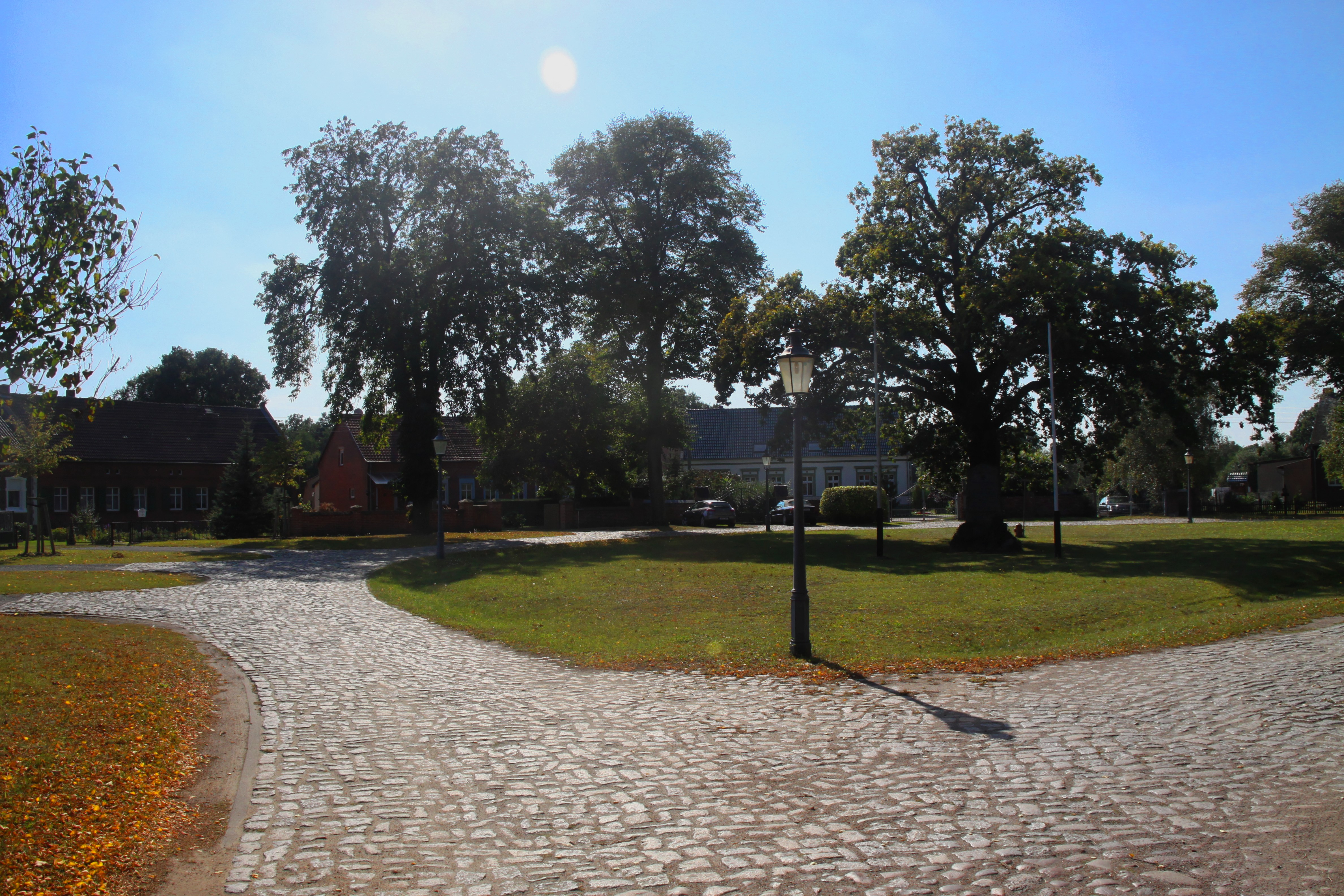 Breese, Kuhblank Round village